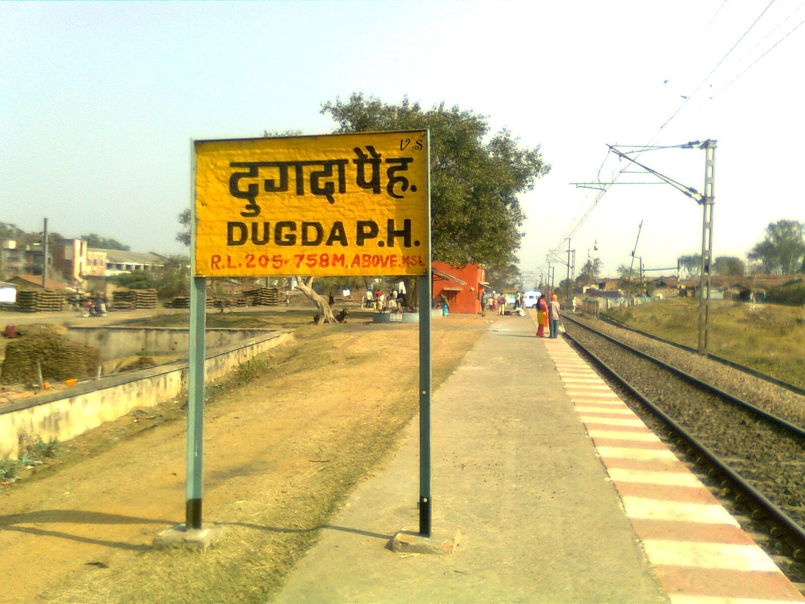 This photo is of Dugda platform Halt.